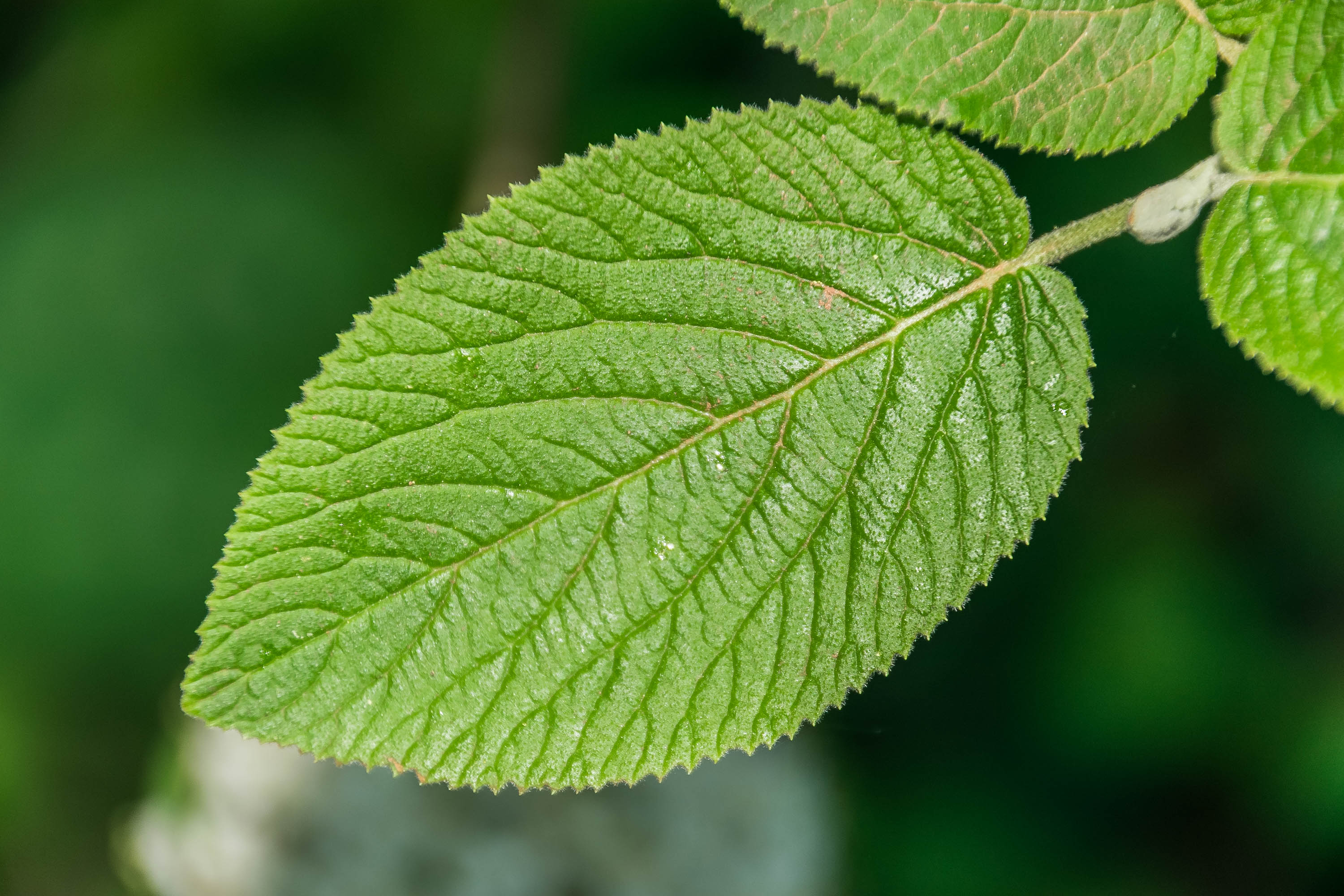 Leaf of Viburnum lantana near Nauviale, Aveyon, France